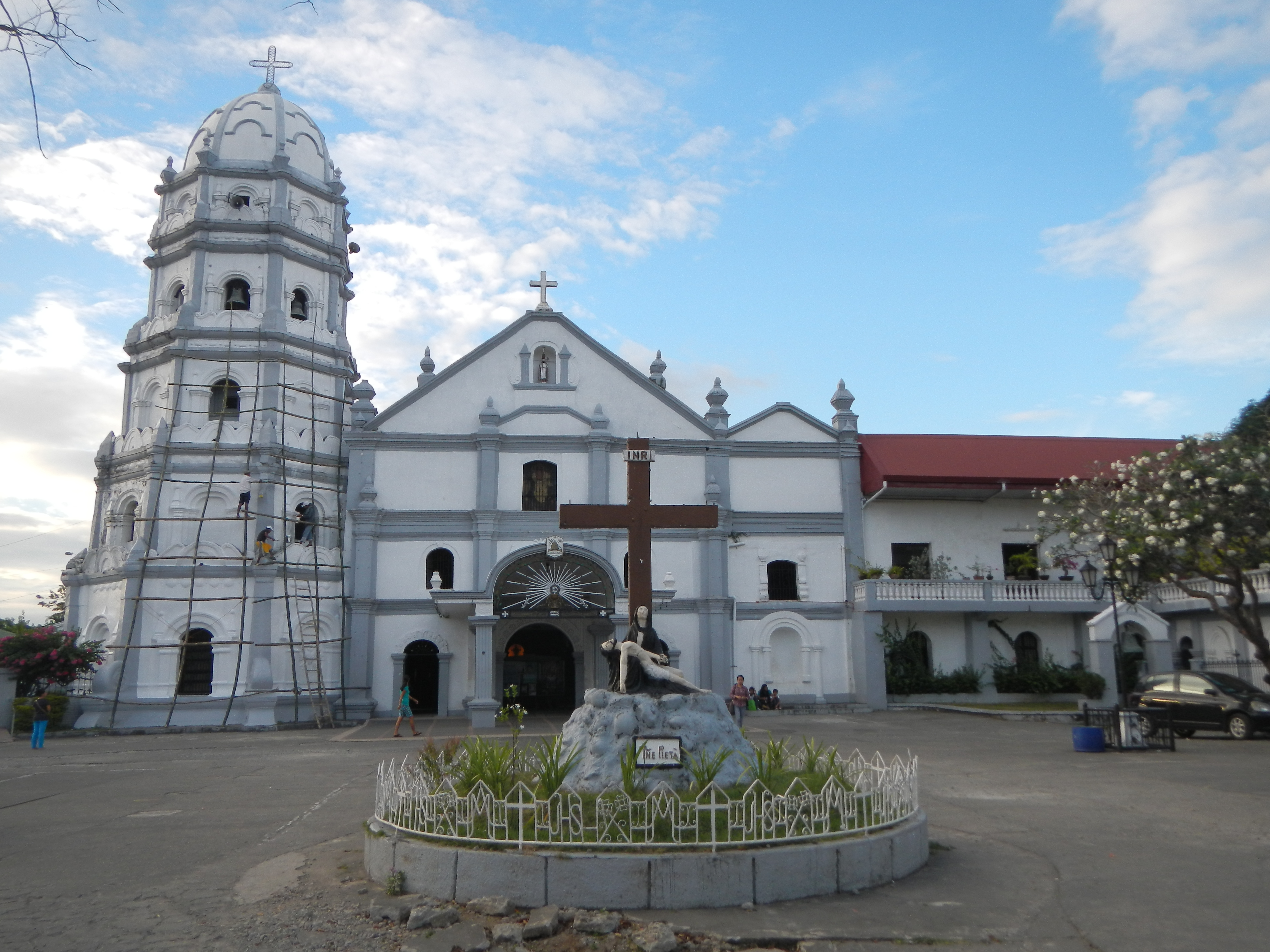 Parish of St. Fabian, Pope and Martyr Church, San Fabian, Pangasinan [1]